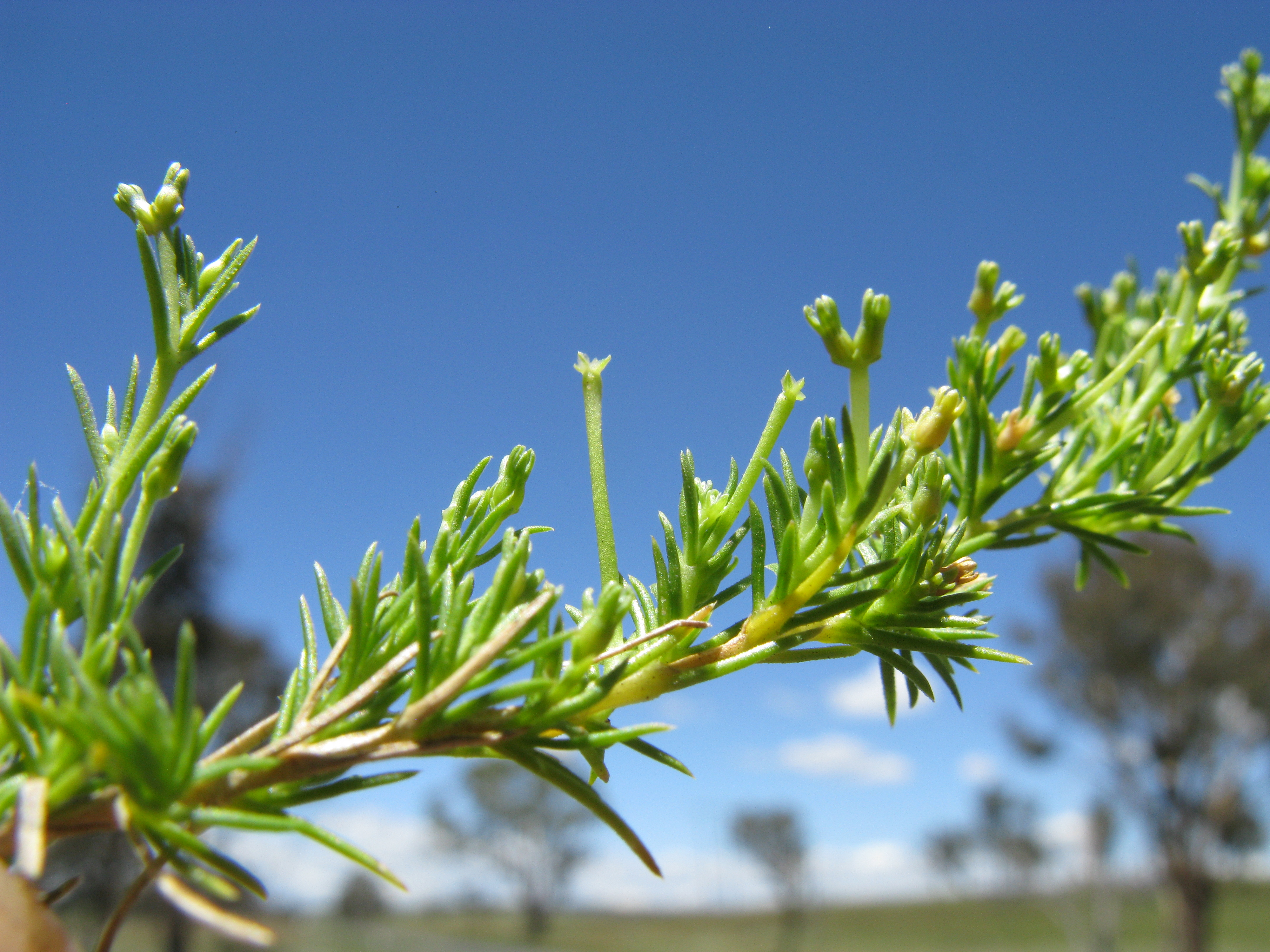 Native, cool season, perennial, usually cushion-forming herb to 15 cm tall. Leaves are crowded, short, narrow and bright green. Flowerheads are a pedunculate pair of small subsessile flowers; Sepals 4, are yellowish cream to pale green. Petals are absent. Flowering is from spring tomid-summer. Grows in grasslands and grassy woodlands of tableland montane to alpine areas.